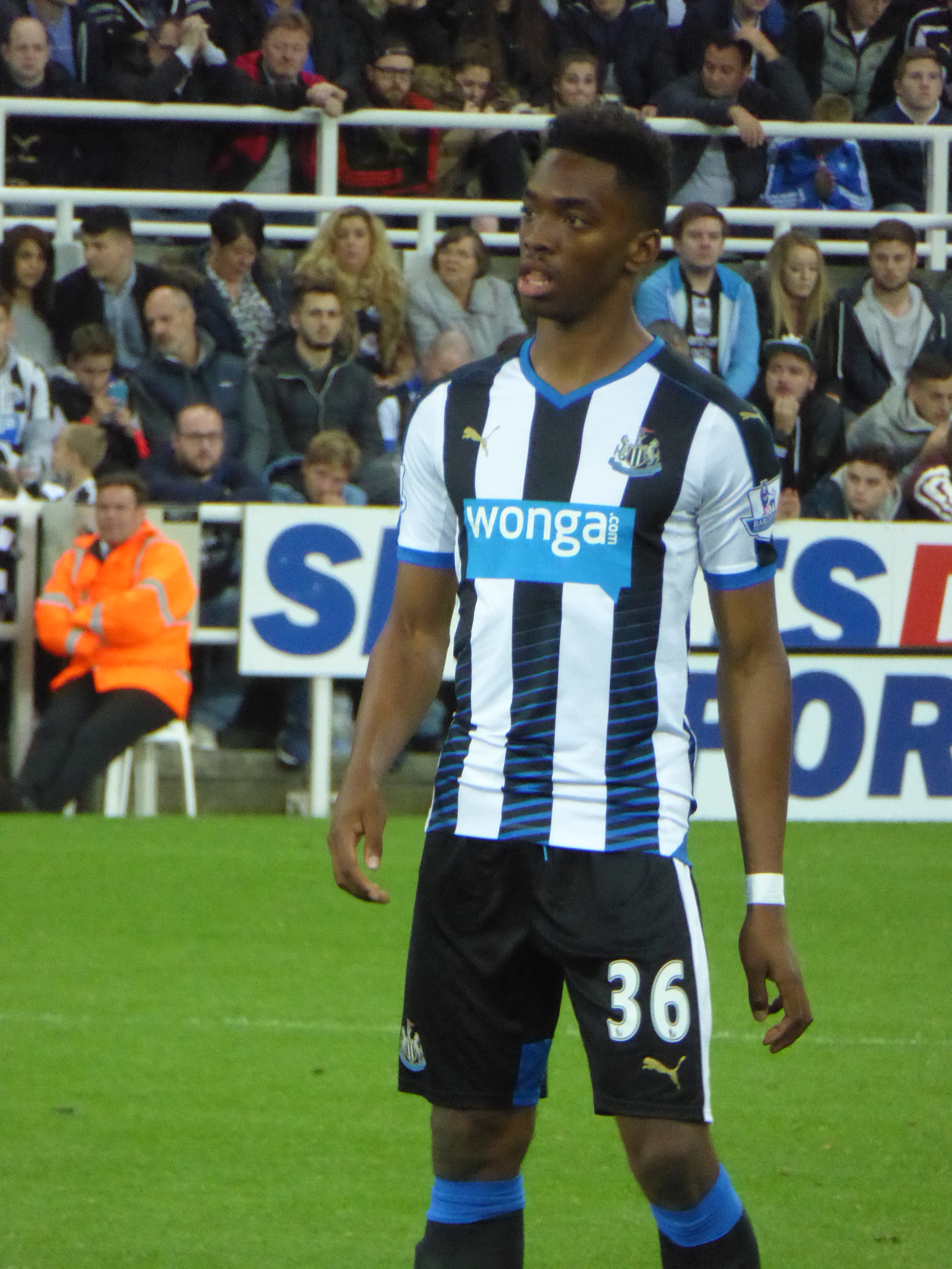 Newcastle United vs Sheffield Wednesday (0-1), Capital One Cup Third Round, St James' Park, Newcastle upon Tyne, Tyne and Wear, England, September 2015